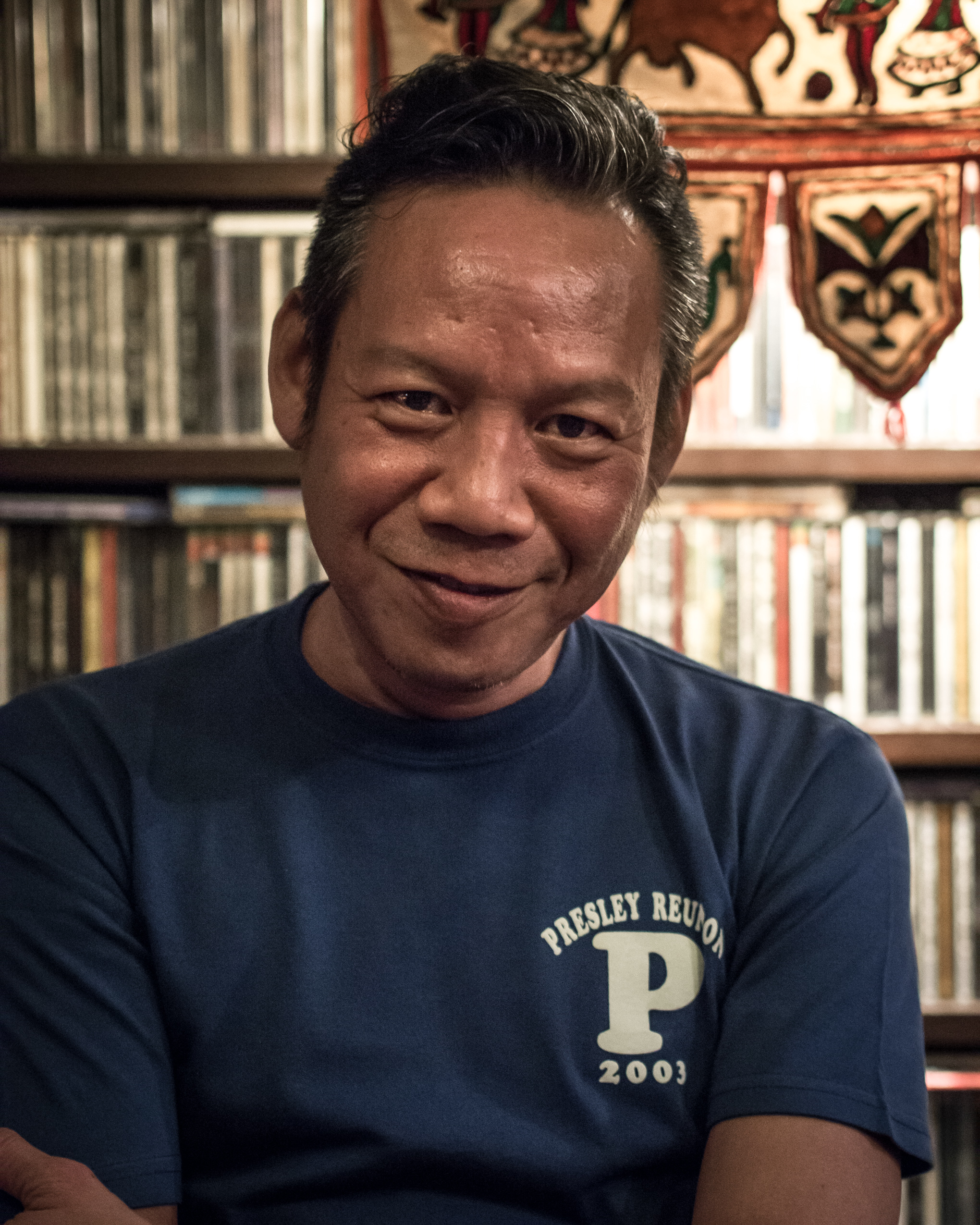 Thai film director Nonzee Nimibutr (Thai script: นนทรีย์ นิมิบุตร) on a visit to Chiang Mai